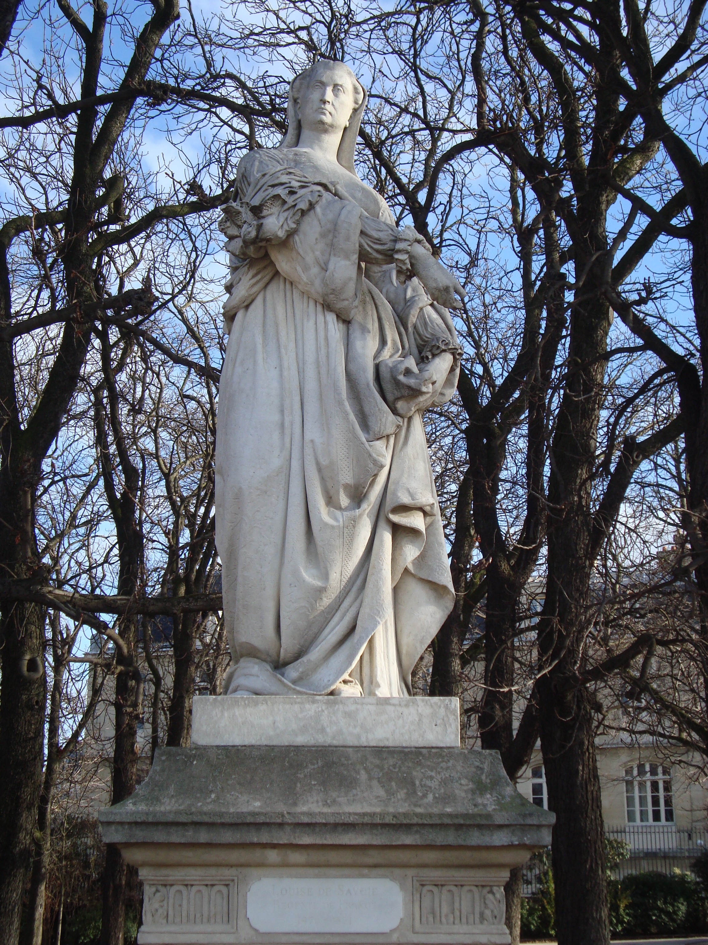 Statue of Louise de Savoie in the Jardin du Luxembourg, Paris